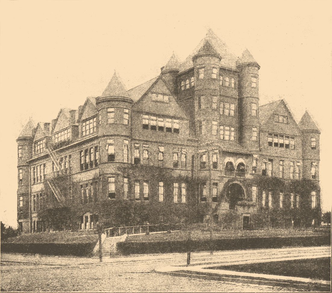 Illustration from Brockhaus and Efron Jewish Encyclopedia (1906—1913). Brooklyn Hebrew Orphan Asylum, 373 Ralph Avenue, Brooklyn, N.Y..